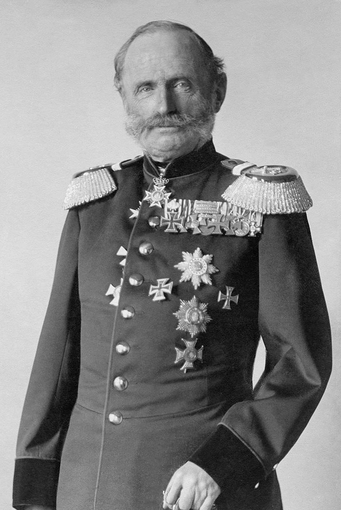 George of Saxony